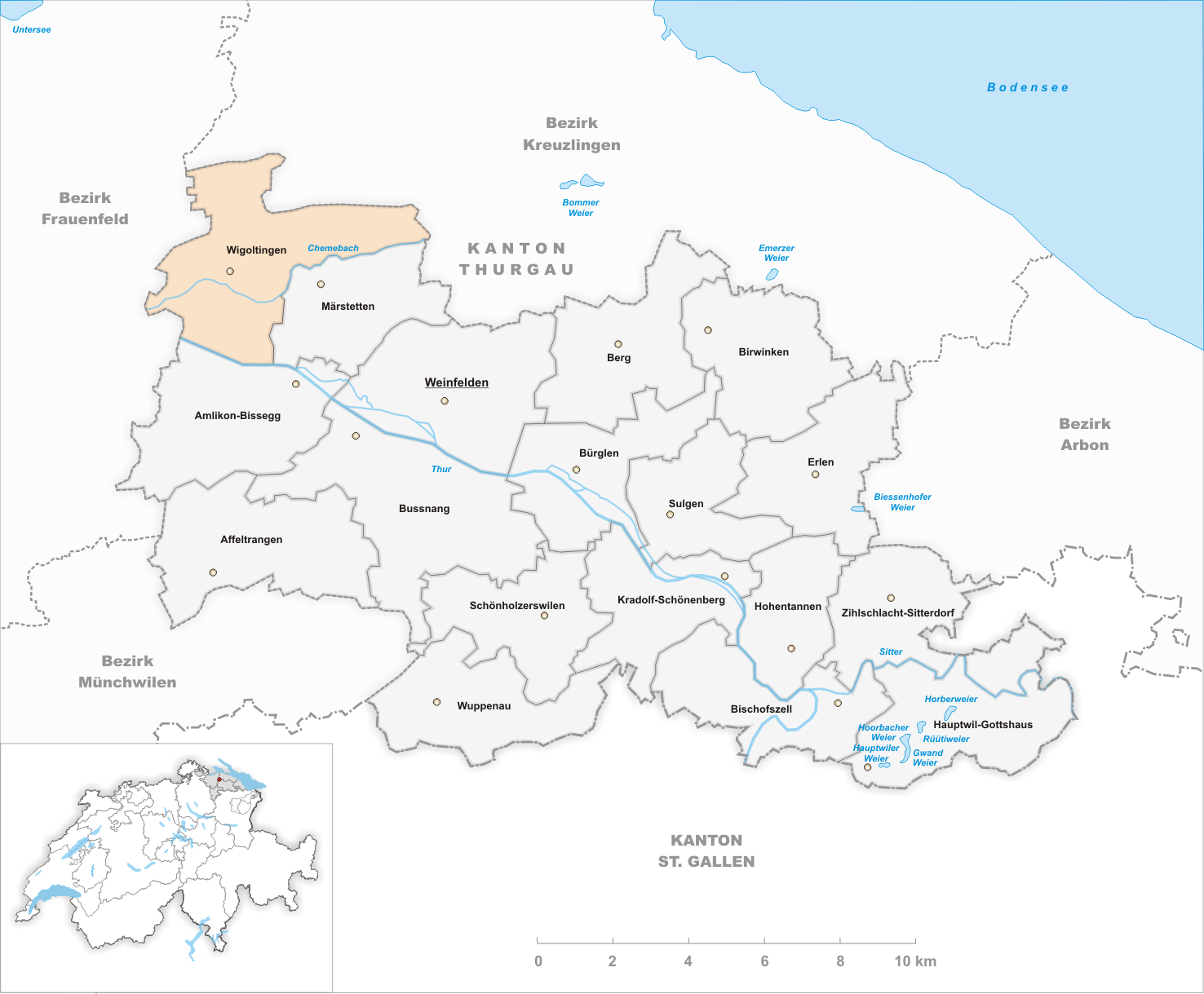 Municipality Wigoltingen